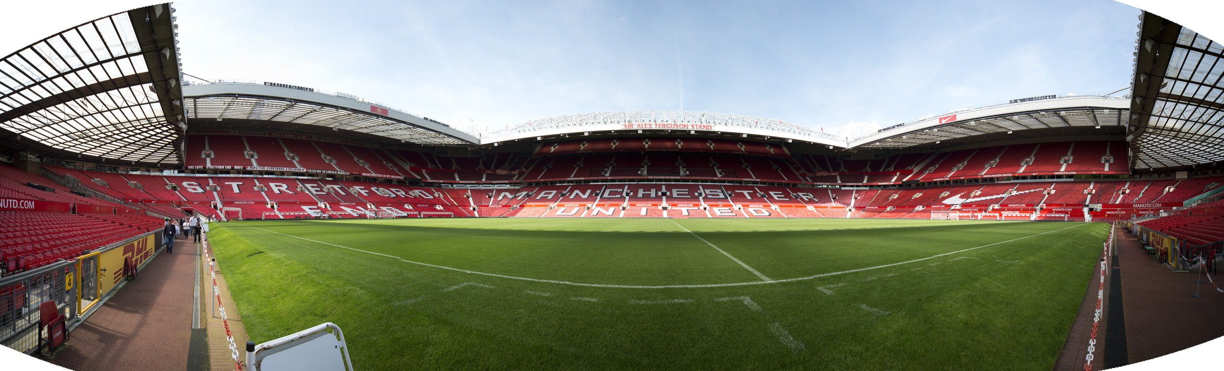 Manchester United Panorama